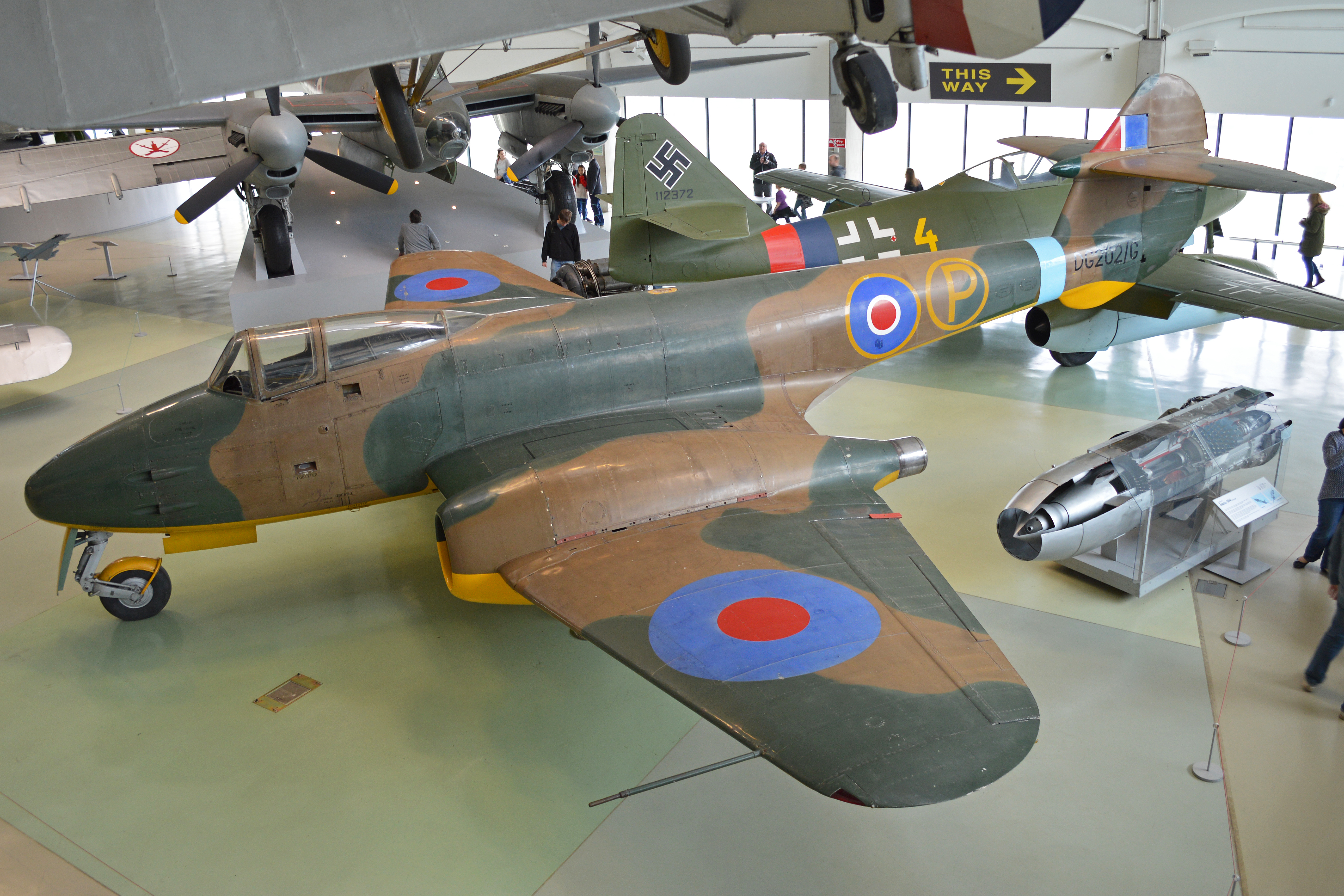 This historic airframe is the first prototype Meteor, and therefore Britains first jet fighter. It first flew on 24th July 1943, although this wasn’t the first Meteor flight as DG206 had previously flown on 5th March. DG202 served as a test and development aircraft until September 1945 when it was withdrawn from use and stored. It became a ground trainer until placed on display as a gate guard at RAF Yatesbury in March 1958. In 1961 it was replaced on the gate by a Venom and in 1965 it joined the historic collection at Cosford. It remained on display there until September 2011 when it was moved to its current location in the Milestones of Flight Hall, RAF Museum, Hendon, London, UK. 22-3-2015